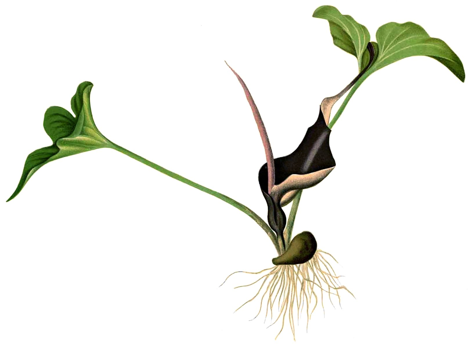 Plate from book